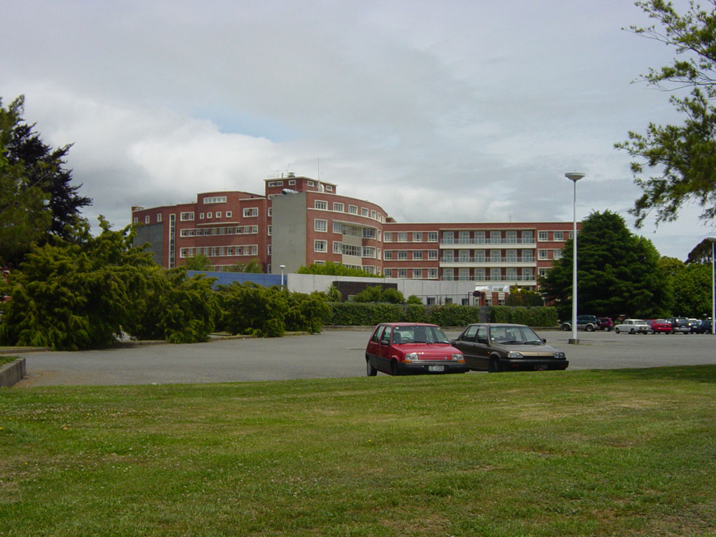 Myself, because I took the photo today, before I went to work.